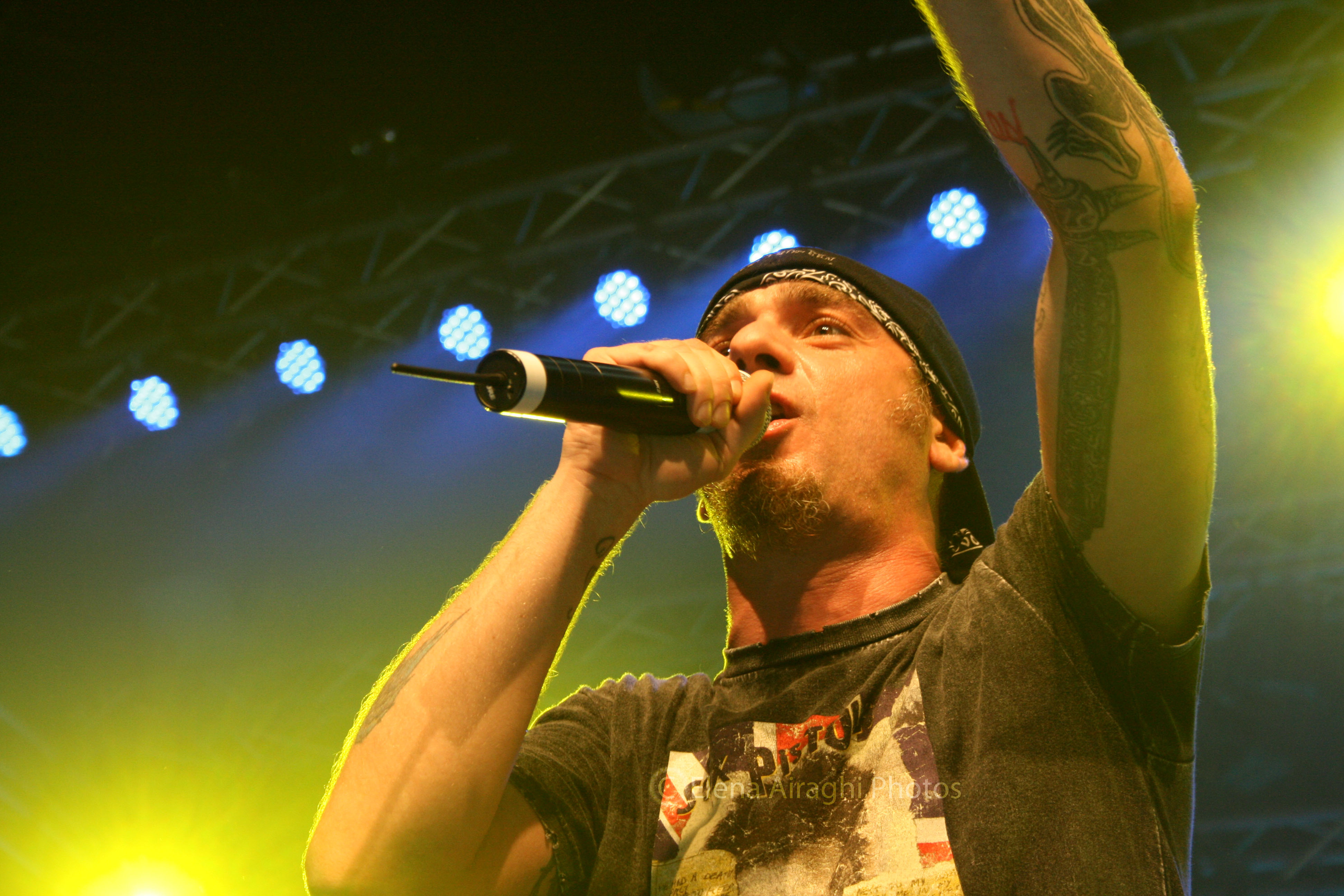 J Ax during a concert.